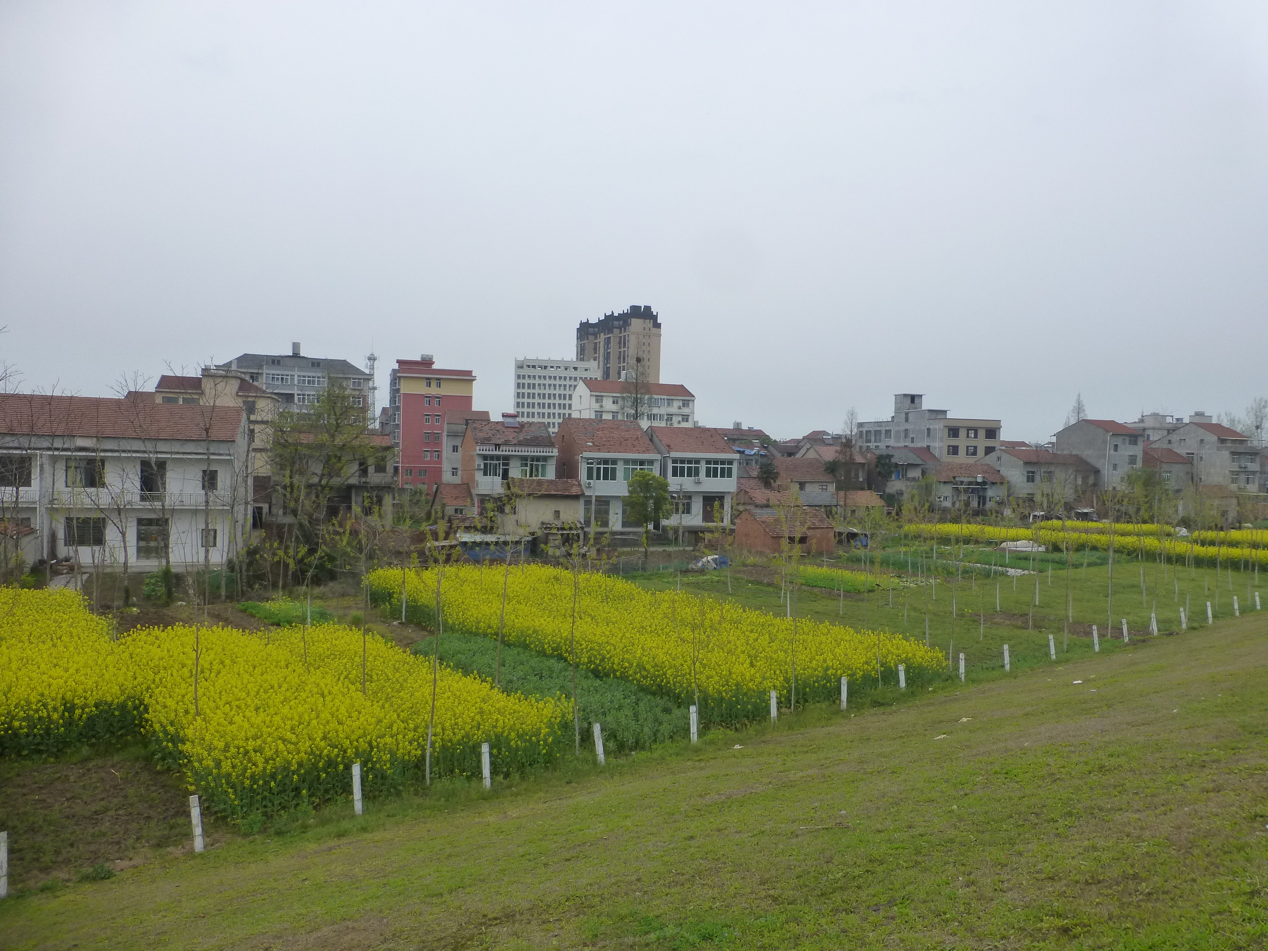 Xintan Town, Honghu City, Hubei: a view from the levee that protects the town from the east and north-east, running along the Sihu Trunk Canal. Young trees have been planted along the levee (part of a grand afforestation project), in what presently still is a canola field.